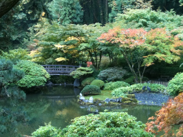 Strolling Pond Garden at the Portland Japanese Garden.